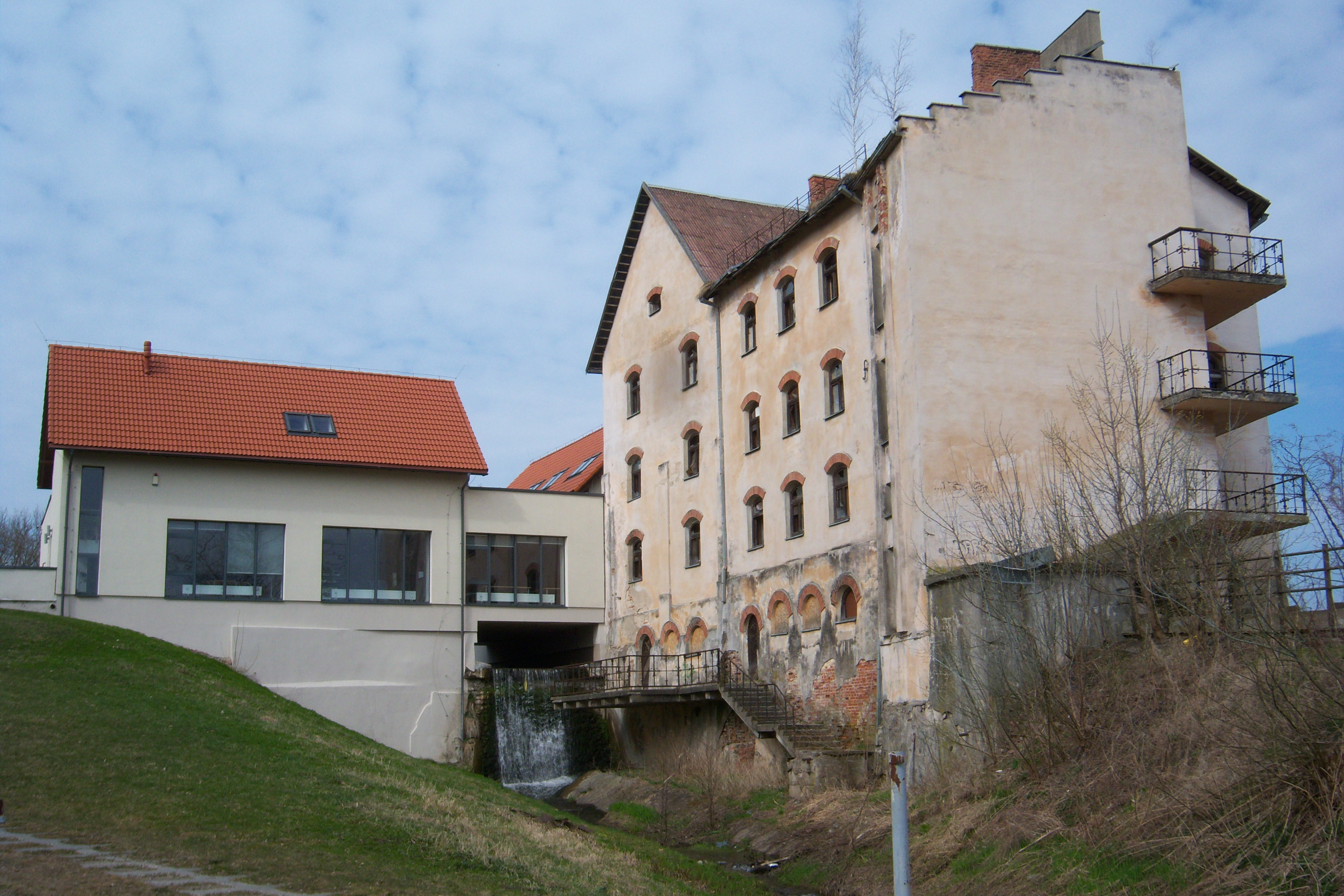 Former manor in Prienai, Lithuania